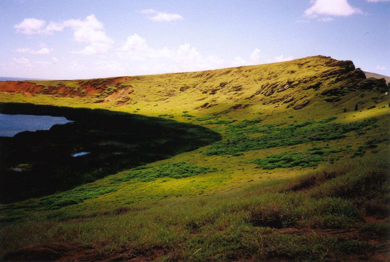 Caldera of Rano Raraku Volcano, Easter Island